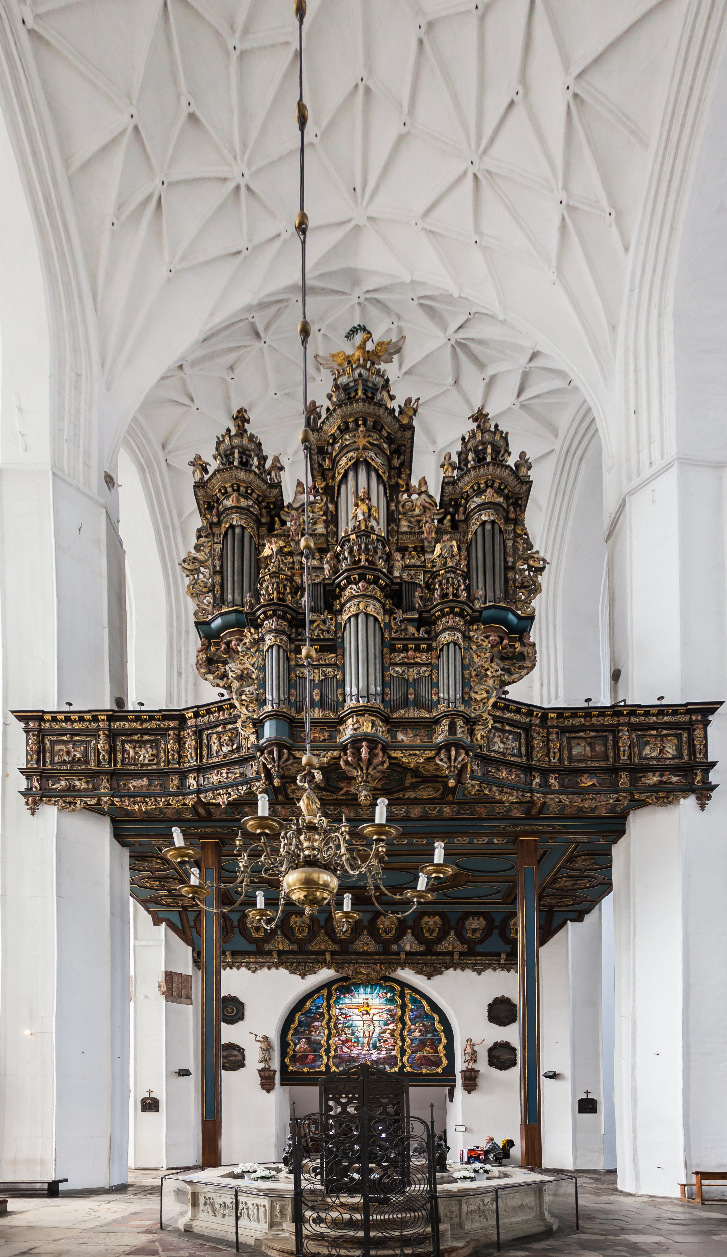 Church of St Mary, Gdansk, Poland